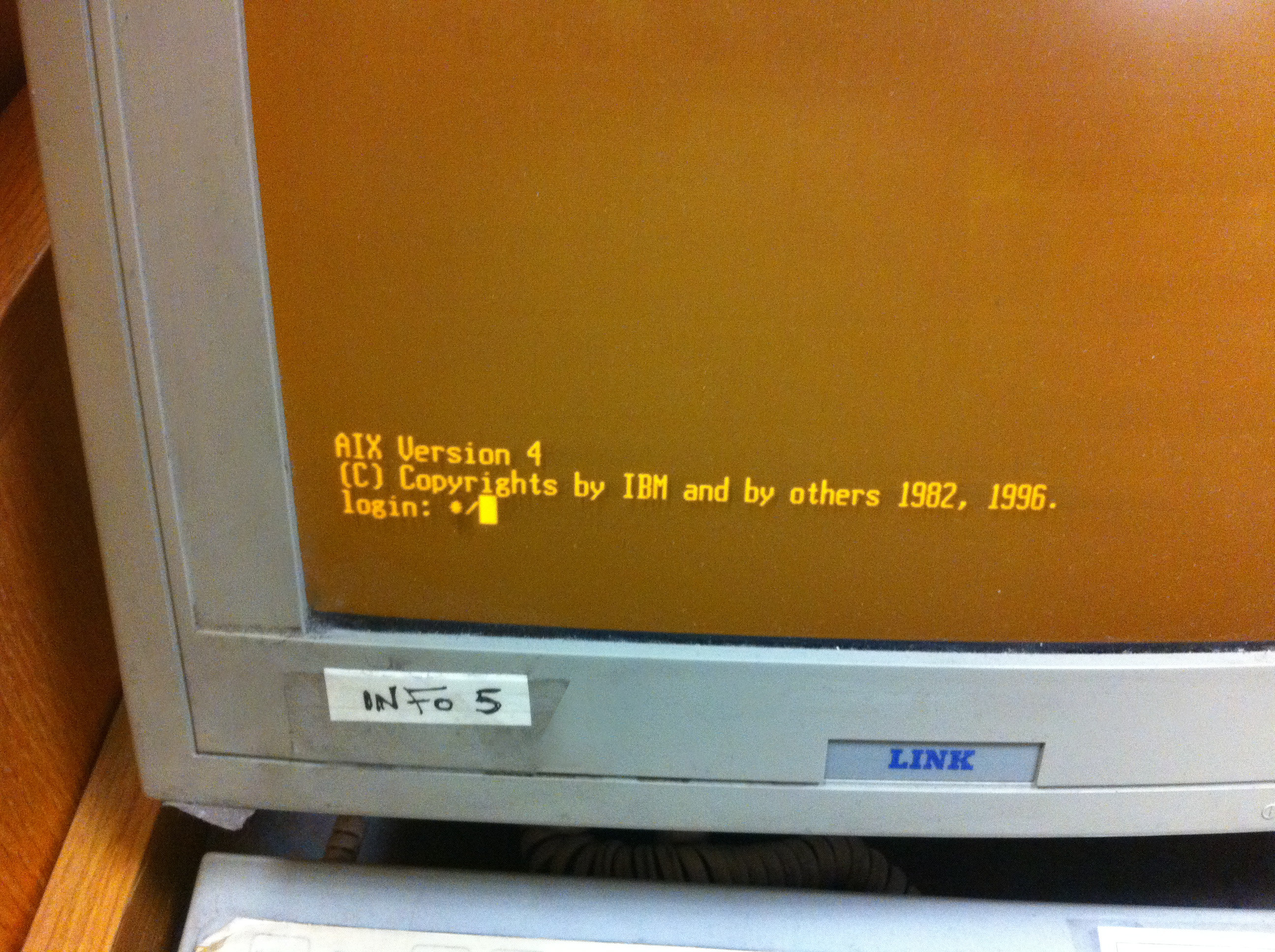 IBM AIX 4 login prompt. AIX is IBM's version of Unix. The computer terminal appears to be in poor condition.